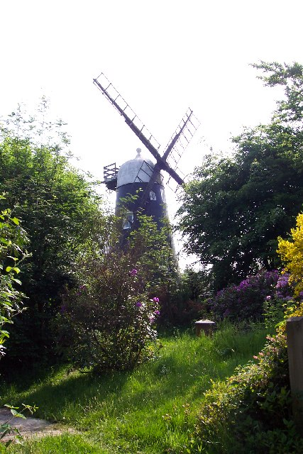 Photograph of Ewhurst mill